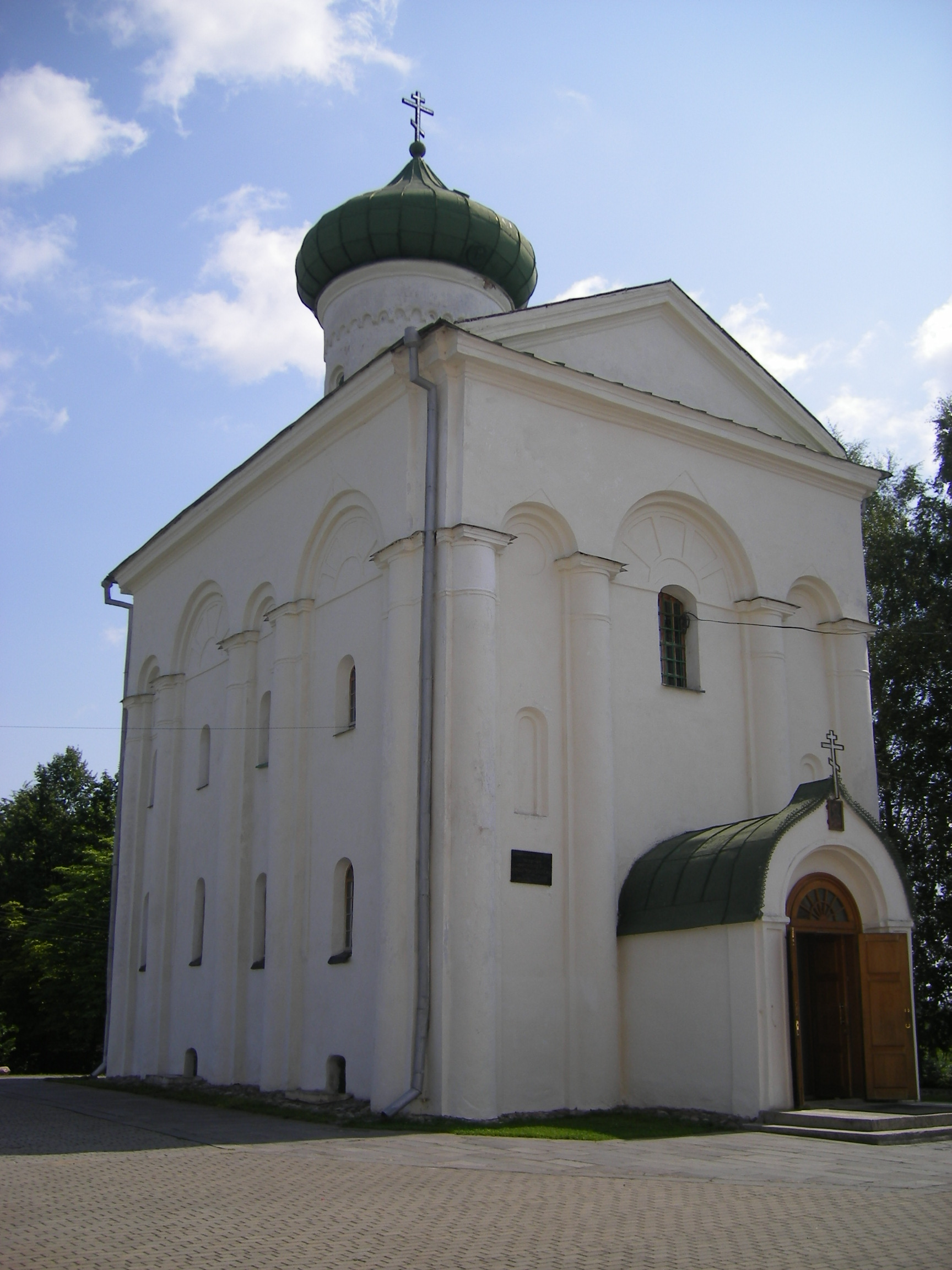 Spaso-Preobrazhensky church in St. Euphrosine monastery